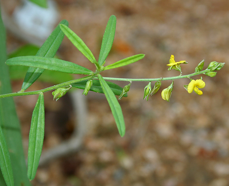 Polygala elongata in Hyderabad , India.